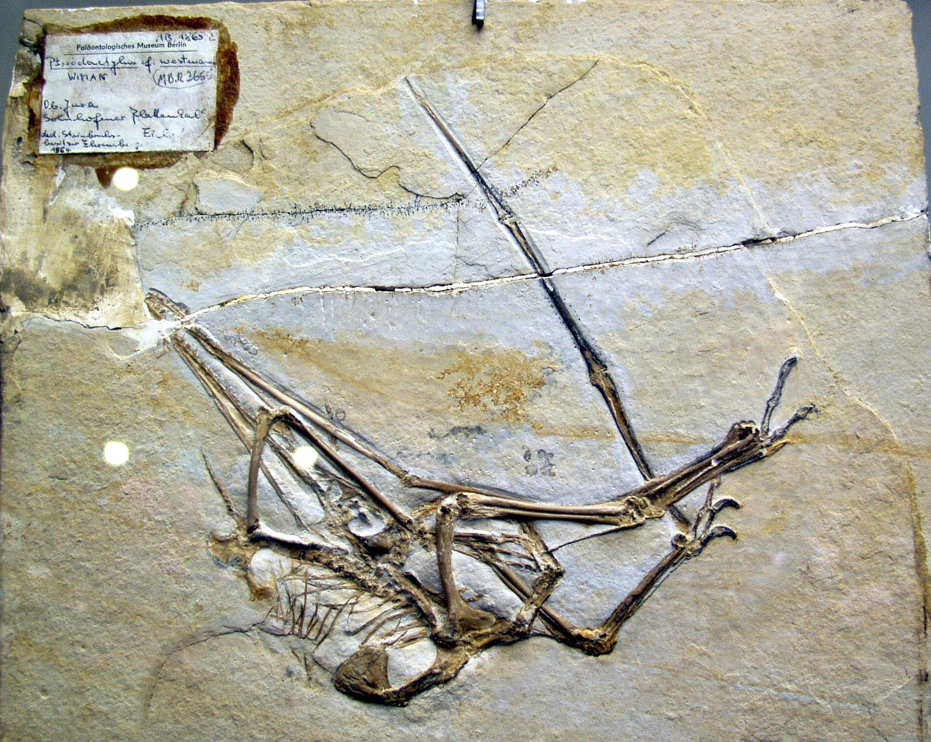 Fossil of a Pterodactyloidea - Pterodactylus kochi -, Eichstätt. Museum für Naturkunde (Berlin).